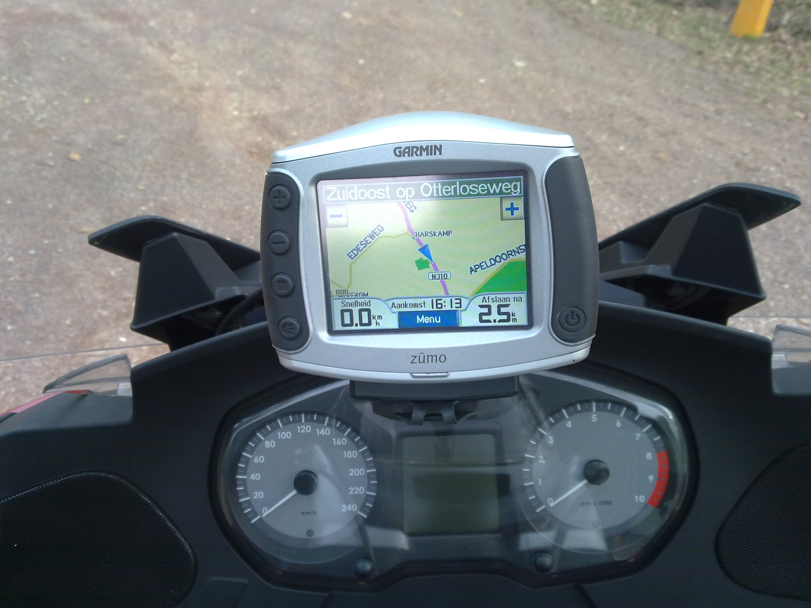 Garmin Zümo GPS device mounted in the cockpit of a BMW R1200RT motorcycle